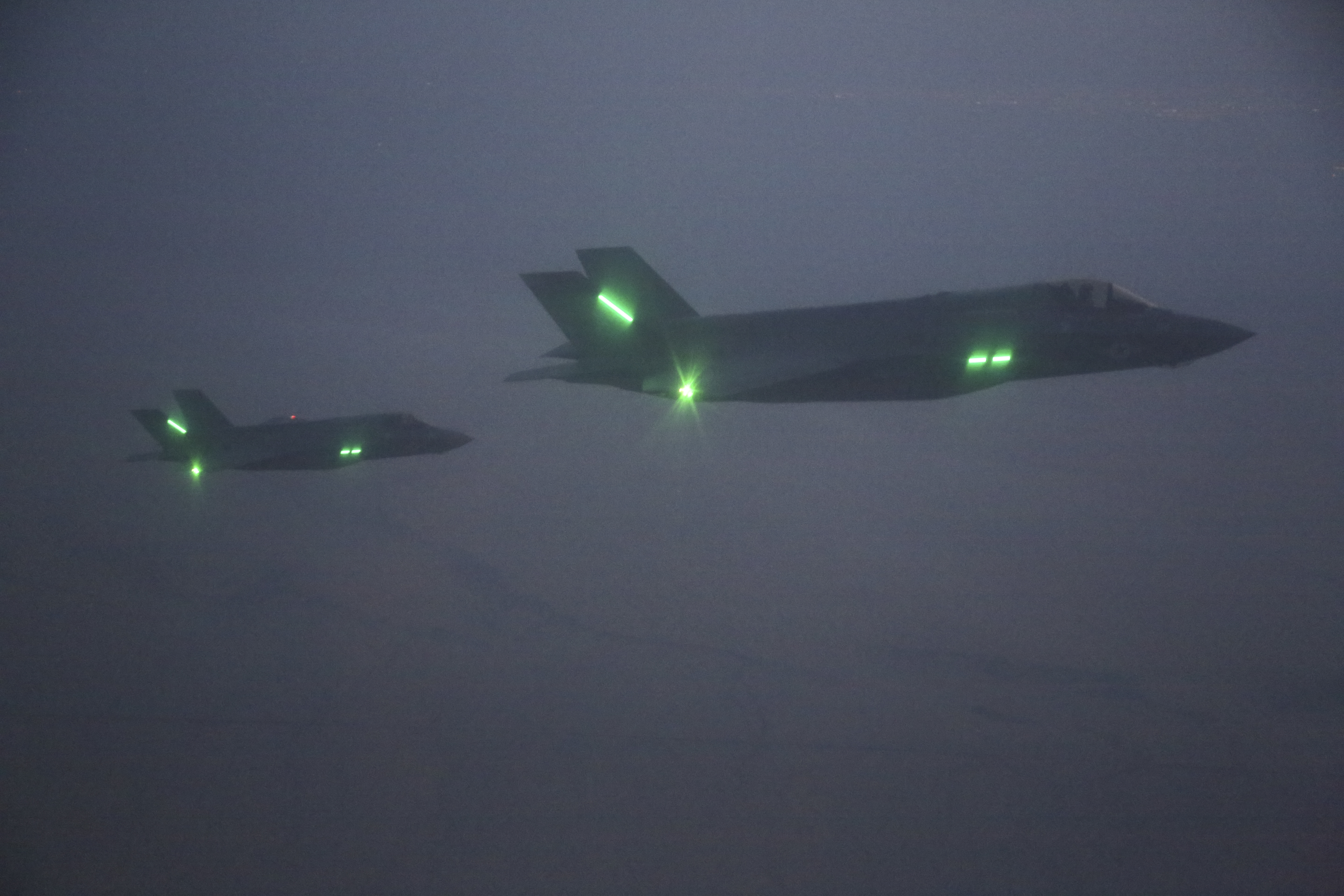 U.S. Marine Corps F35B Lighting II assigned to Marine Fighter Attack Squadron 121, Marine Air Group 13, 3d Marine Aircraft Wing, perpare to participate in aerial refueling missions at Marine Air Station Yuma, Ariz, June 21, 2016. The mission was to show aerial refueling capabilities for the F35B Lighting II. (U.S Marine Corps photo by Lance Cpl. Jeremy L. Laboy/Released) Unit: 3D Marine Aircraft Wing Combat Camera